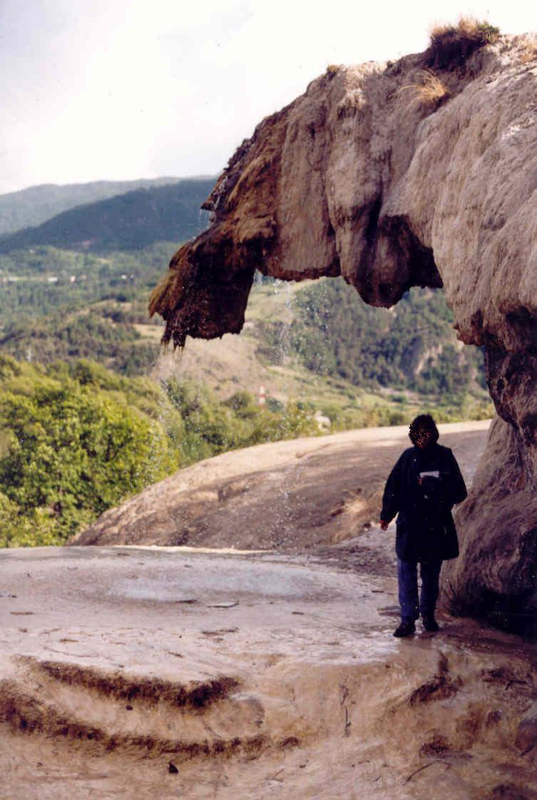 Sedimented Travertine, a natural chemical precipitate of carbonate minerals. The minerals precipitated from a springs calcium carbonate saturated water.